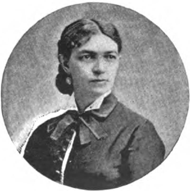 Photograph of Josephine Clifford McCracken